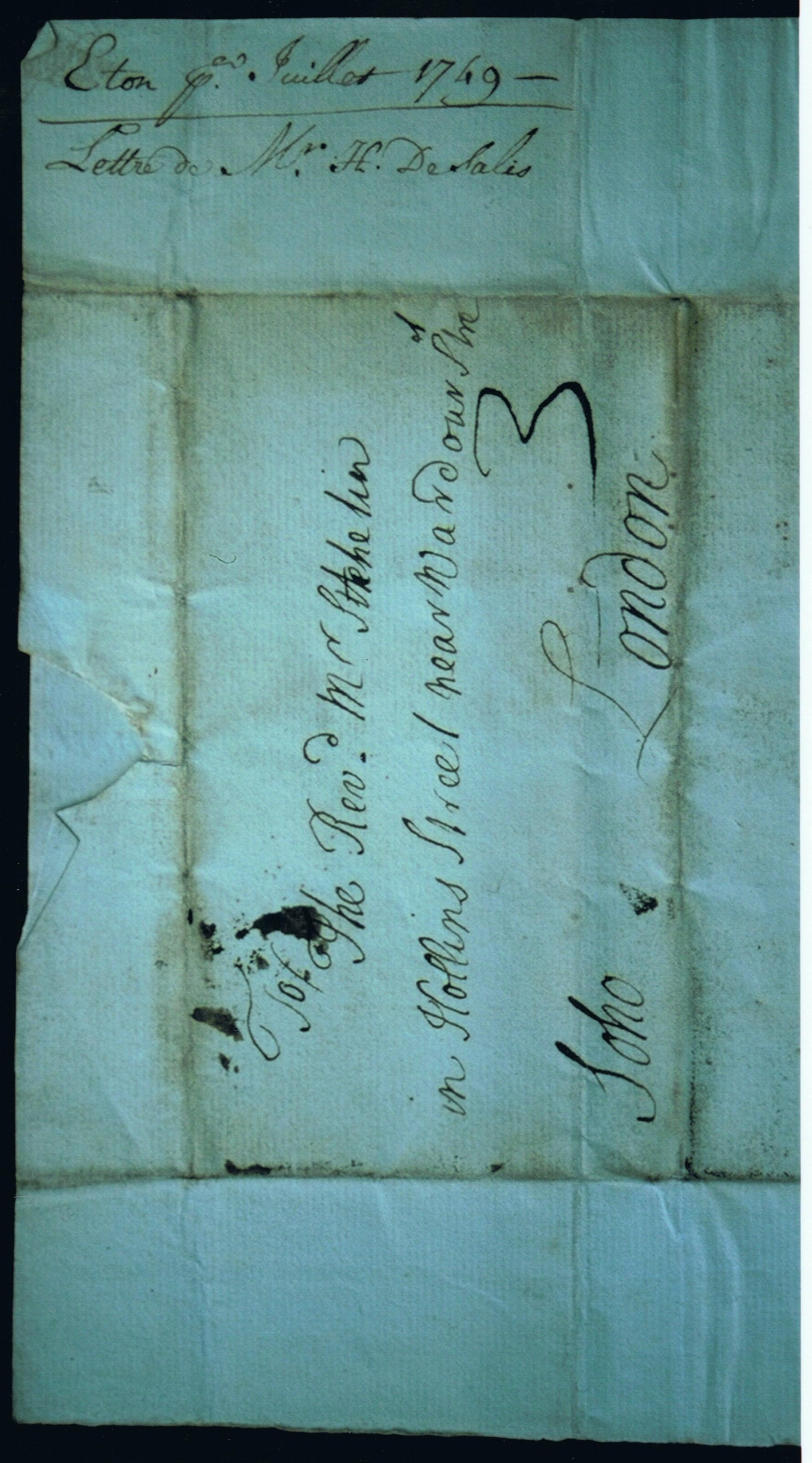 scan of photo (both by me R. de SalisRodolph2 (talk) 10:02, 19 May 2014 (UTC)) of cover of a letter from Rev. Dr. Henry Jerome de Salis, dated Eton, July 1st 1749, to his father's agent Mr. Stechelin in London.Rodolph 16:58, 19 October 2007 (UTC)